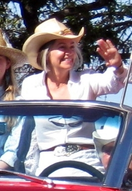 Politicians ride in the 2010 Calgary Stampede Parade. June 9, 2010 in Calgary, Alberta, Canada.